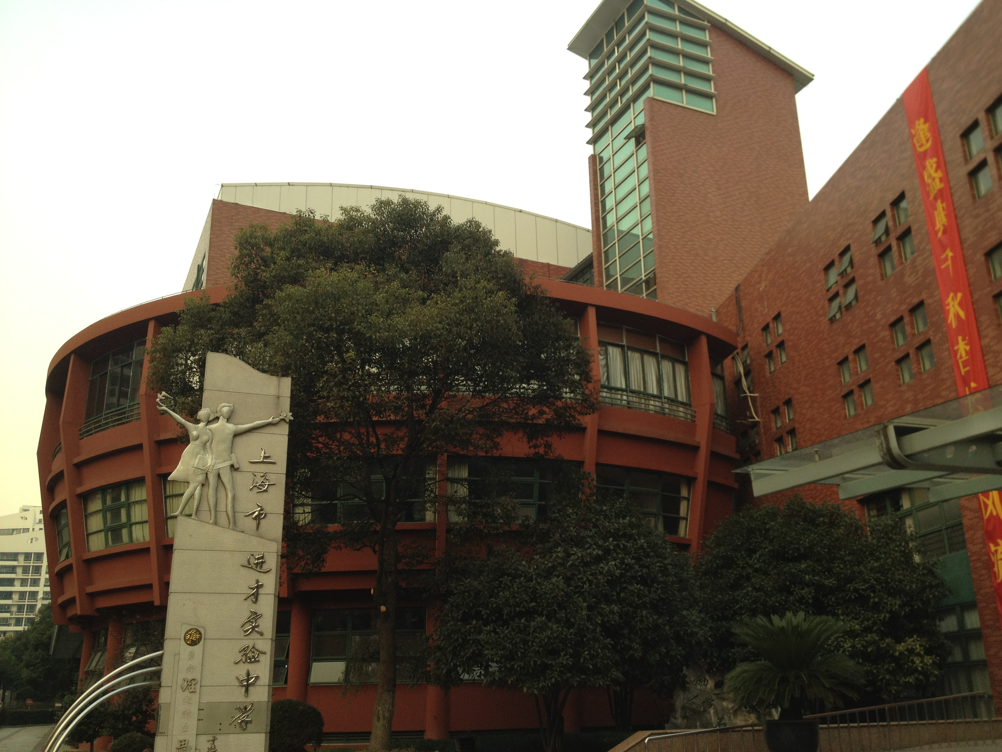 Shanghai Jincai Experimental Junior Middle School